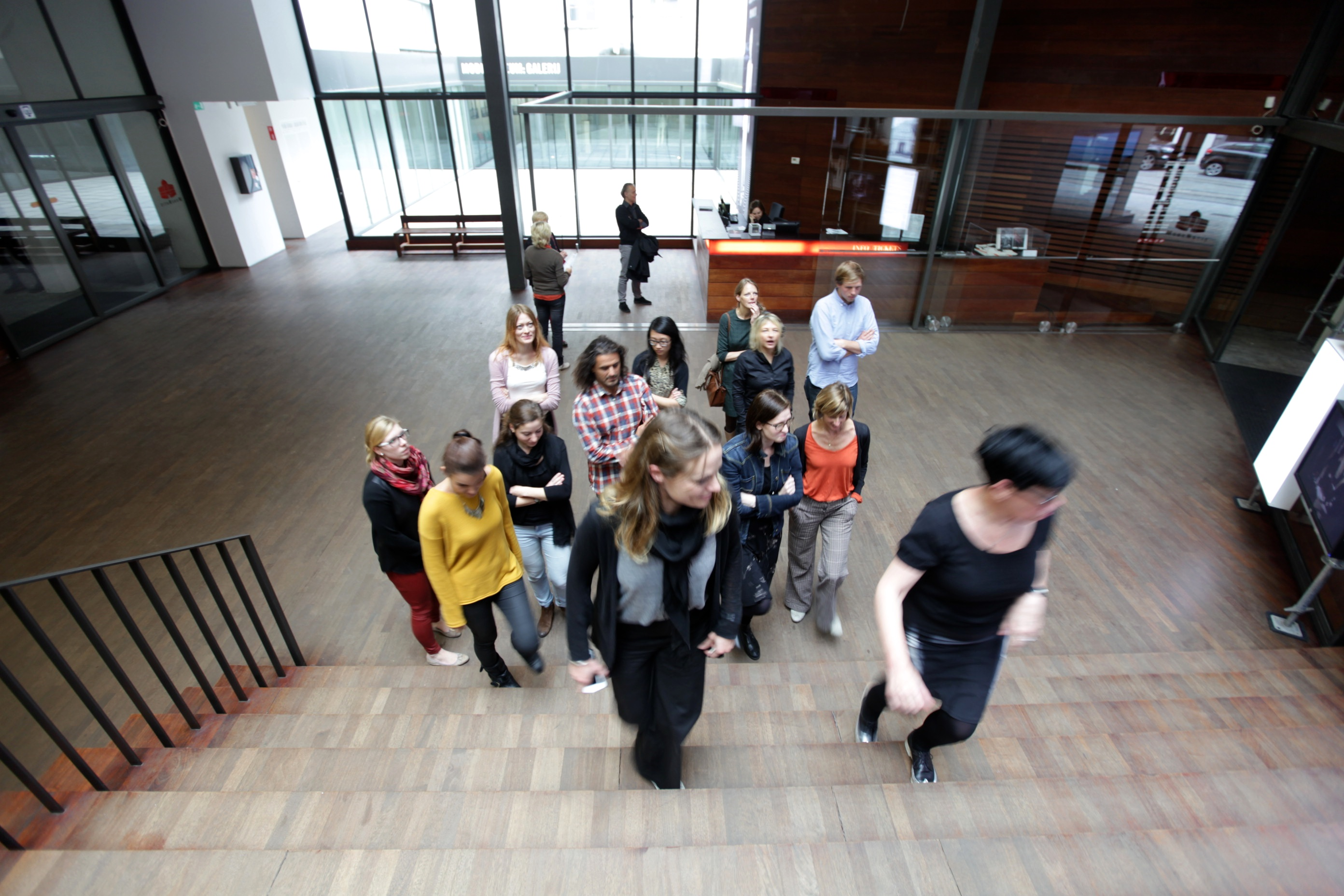 The MoMu Fashion Museum in Antwerp hosted an edit-a-thon on the 23rd of September. The edit-a-thon was part of a series of edit-a-thons organised by Europeana Fashion. New users were guided by volunteers of Wikimedia Belgium and Wikimedia Nederland.